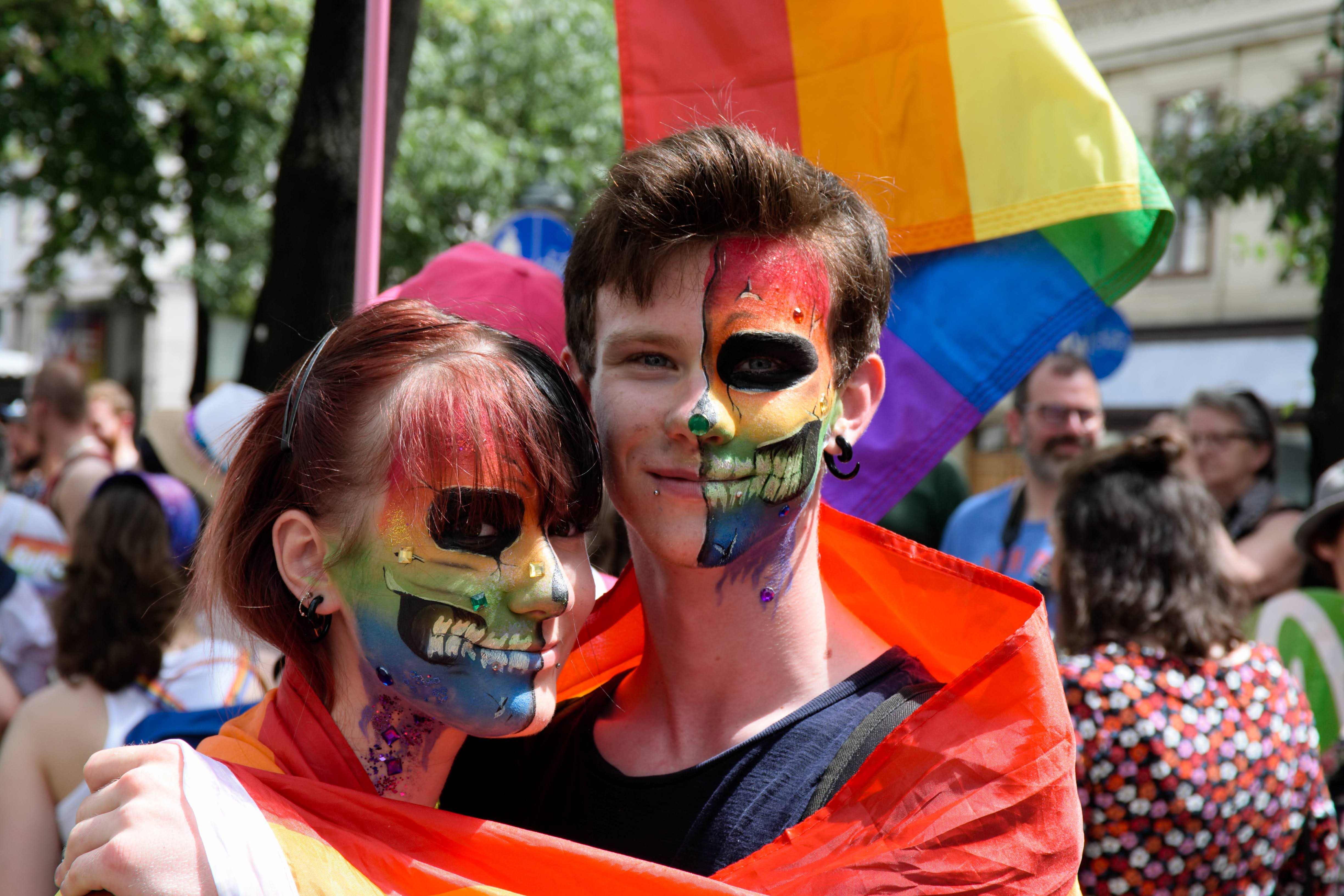 A couple at Europride 2019, Vienna